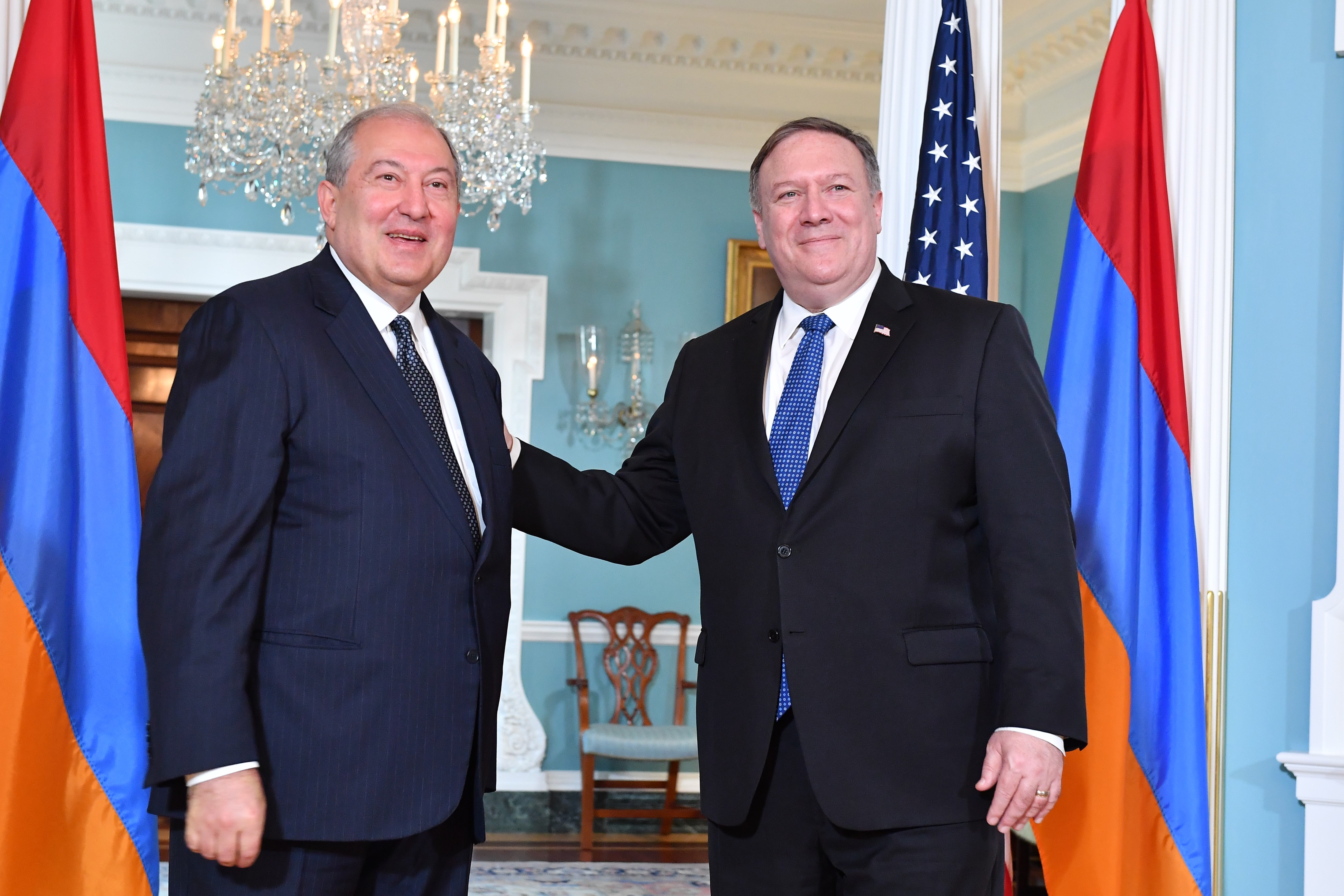 Secretary Michael R. Pompeo shakes hands with Armenian President Armen Sarkissian, at the U.S. Department of State on June 29, 2018. (State Department photo/ Public Domain)